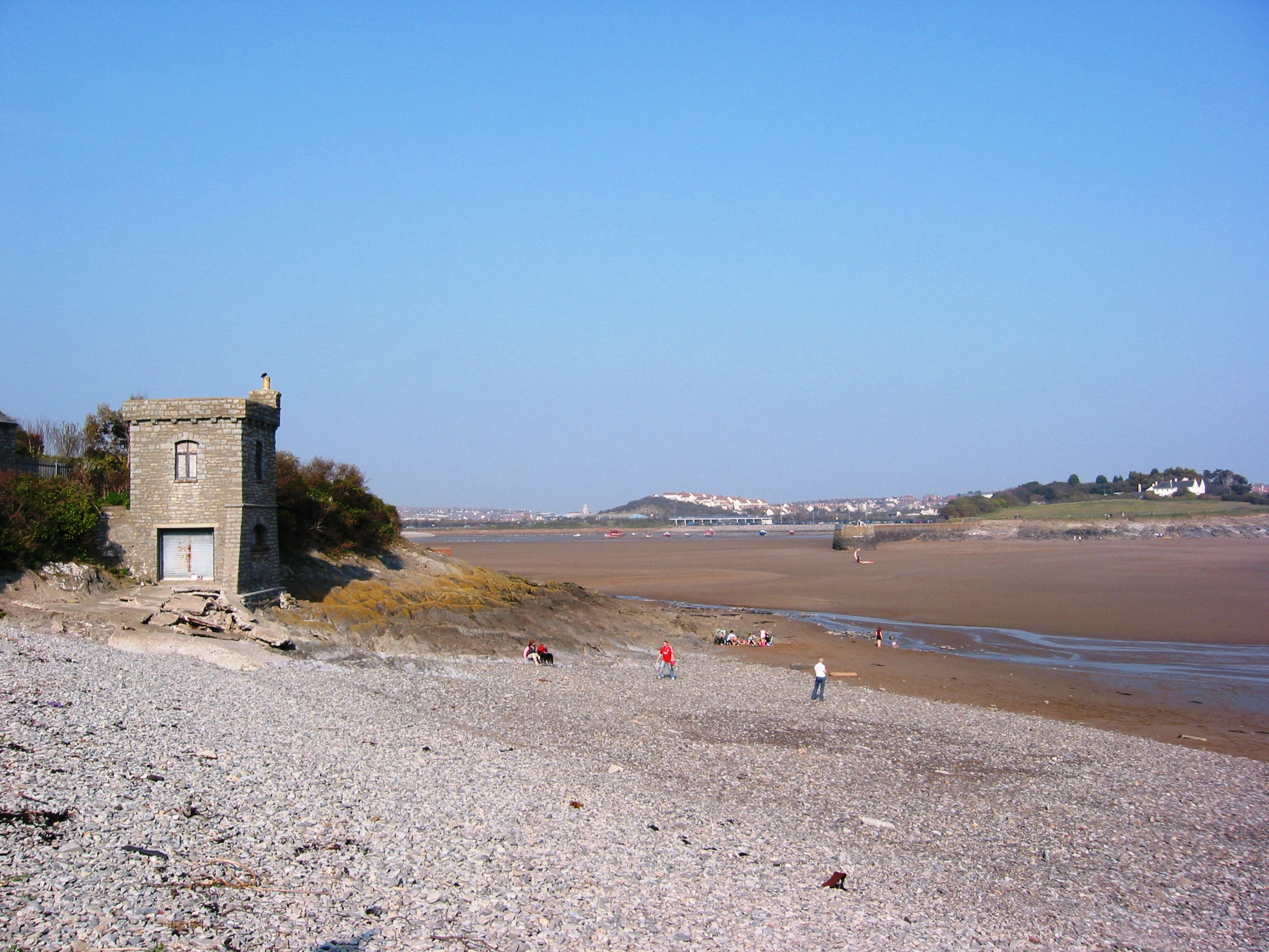 View of the Old Harbour, Barry, Vale of Glamorgan looking north towards the Causeway to Barry Island. It is intriguing to note that the Barry Railway map of 1901 shows their boundary as running through the old harbour area from the Causeway, along the former course of the River Cadoxton, taking in the breakwater seen and down to the low water shore line to the right, thus coming nowhere near the Watchtower and yet for years, a boundary marker with a circular disc atop a short bullhead rail spike, stating Barry Rly Co Boundary was placed in the pebbles just off picture to the left. That disc eventually 'disappeared' but the eroding wrought iron rail still stands jutting out of the pebbles (January 2016).